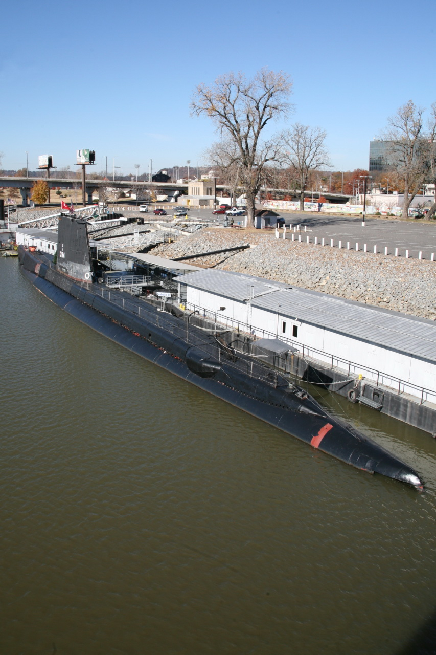 USS Razorback moored in Little Rock.